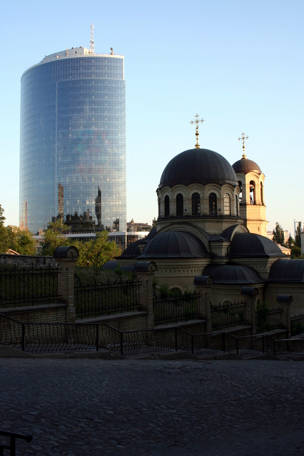 Parus business tower in Kyiv